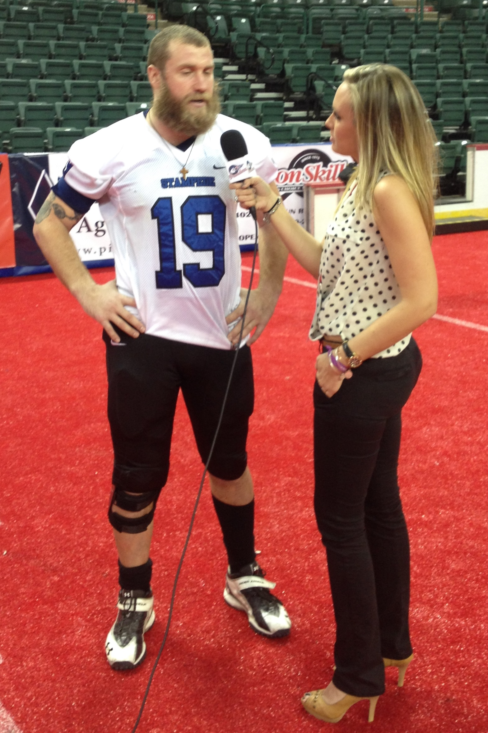 E.J. Nemeth being interviewed after a Arena Football game.